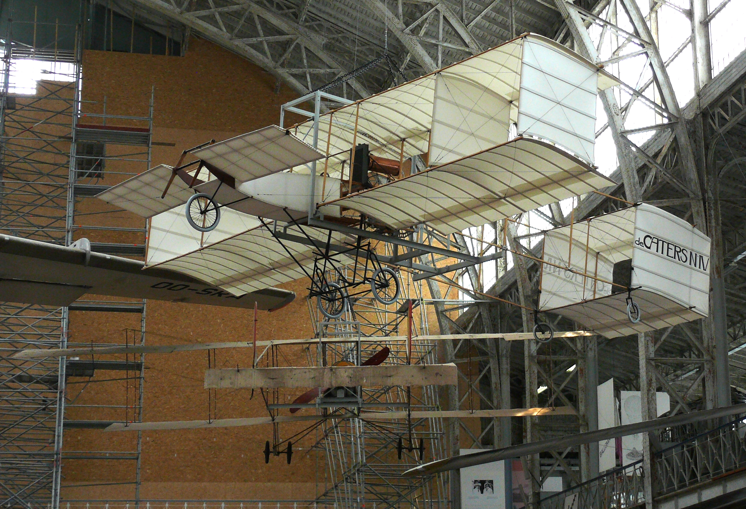 Replica of the Voisin de Caters N IV in the Royal Military Museum at the Jubelpark, Brussels. The Voisin de Caters was the aeroplane used by baron de Caters to accomplish the first official flight in Belgium in 1908 in the Antwerp town of st-Job in 't Goor. The plane was built by the Voisin brothers in their Boulogne Billancourt workshop (Paris), but was equipped with a Belgian made engine.